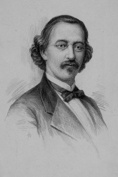 The litographic portrait of German violinist Jean Becker (1833-1884)